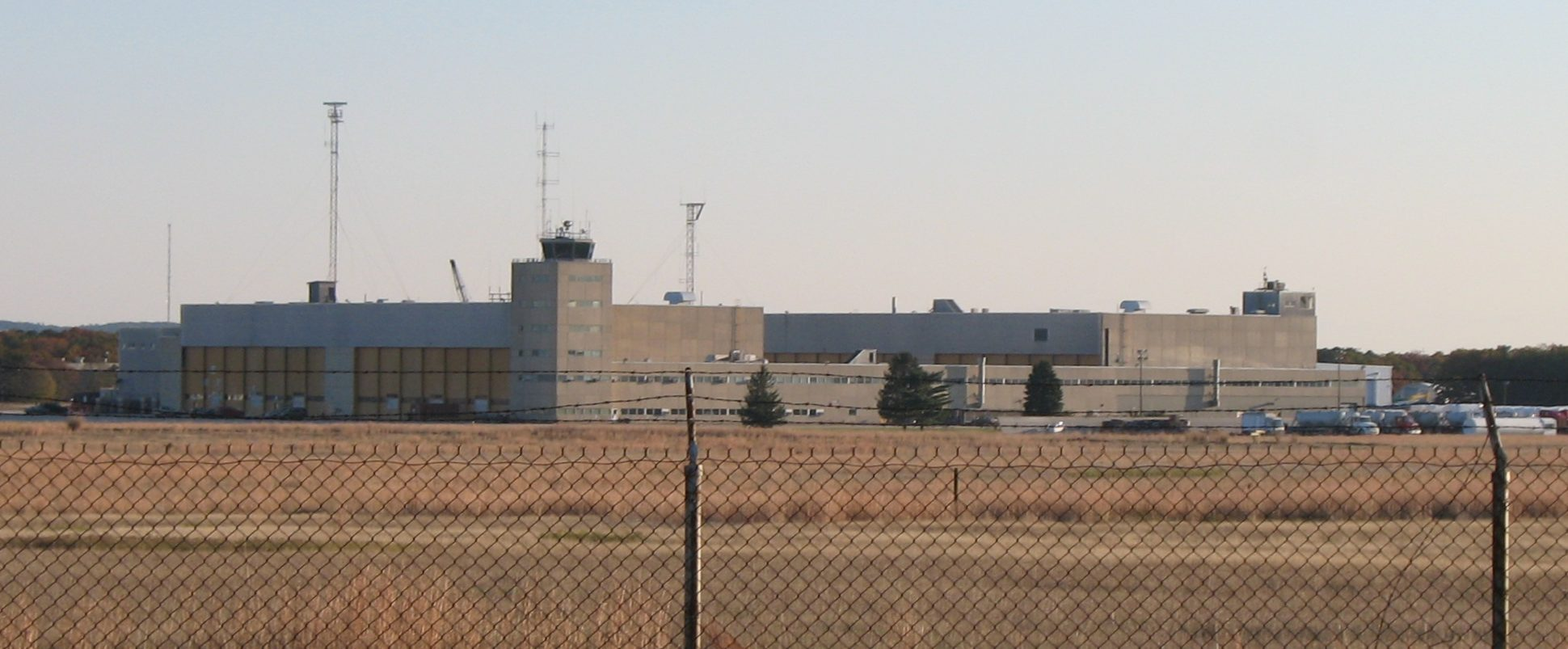 Main building at Calverton Executive Airport. Photo by poster in November 2007.